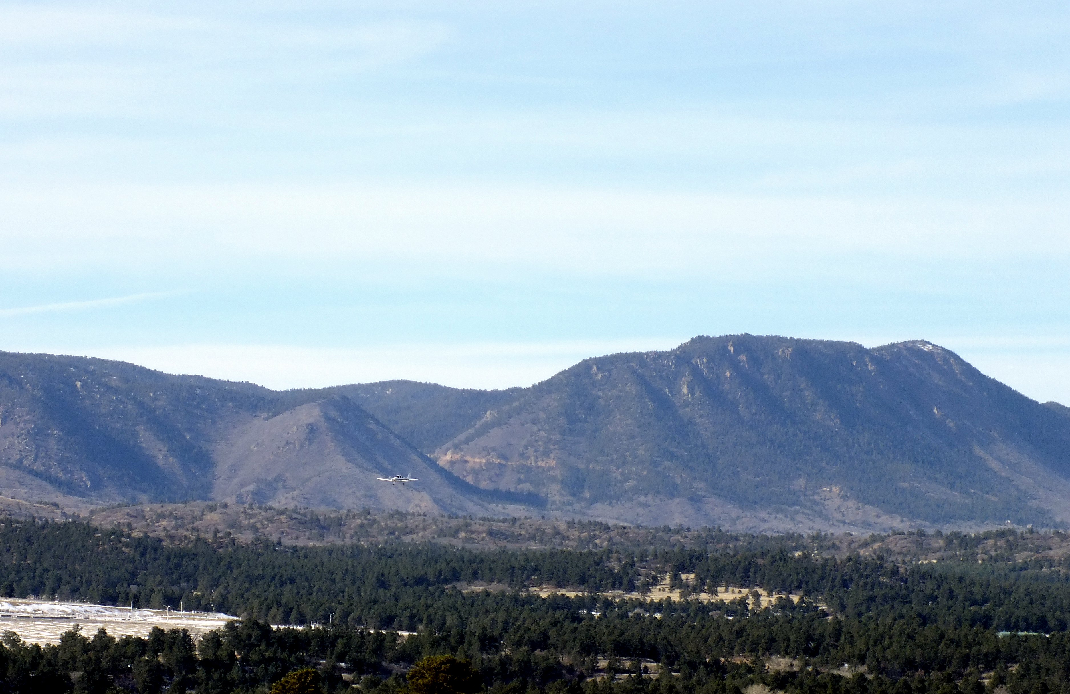 Rampart Range North of Colorado Springs, Colorado